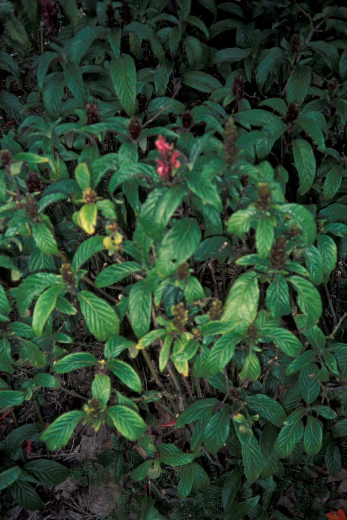 Ruellia chartacea (habit). Location: Maui, Enchanting Floral Gardens of Kula